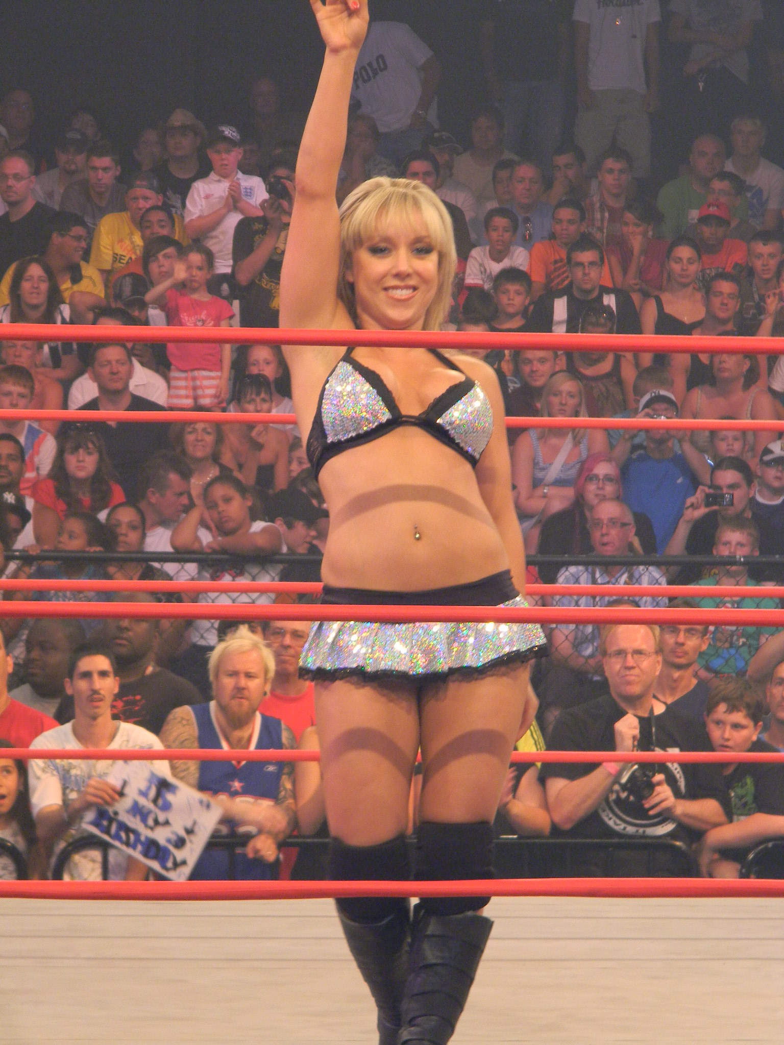 Taylor Wilde, posing for the cameras before her match against Rosie LottaLove during a recent Impact taping.